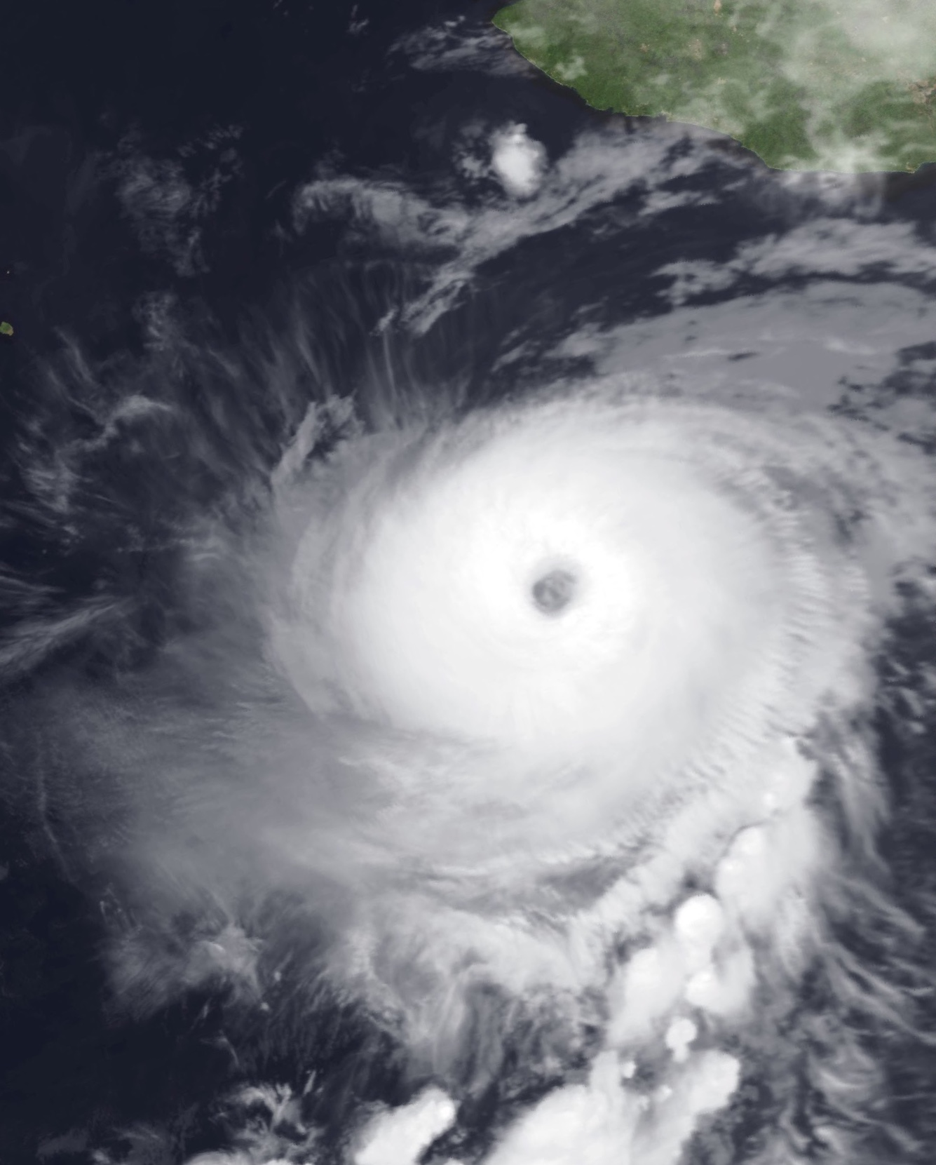 Hurricane Adrian near peak intensity south of Mexico on June 10